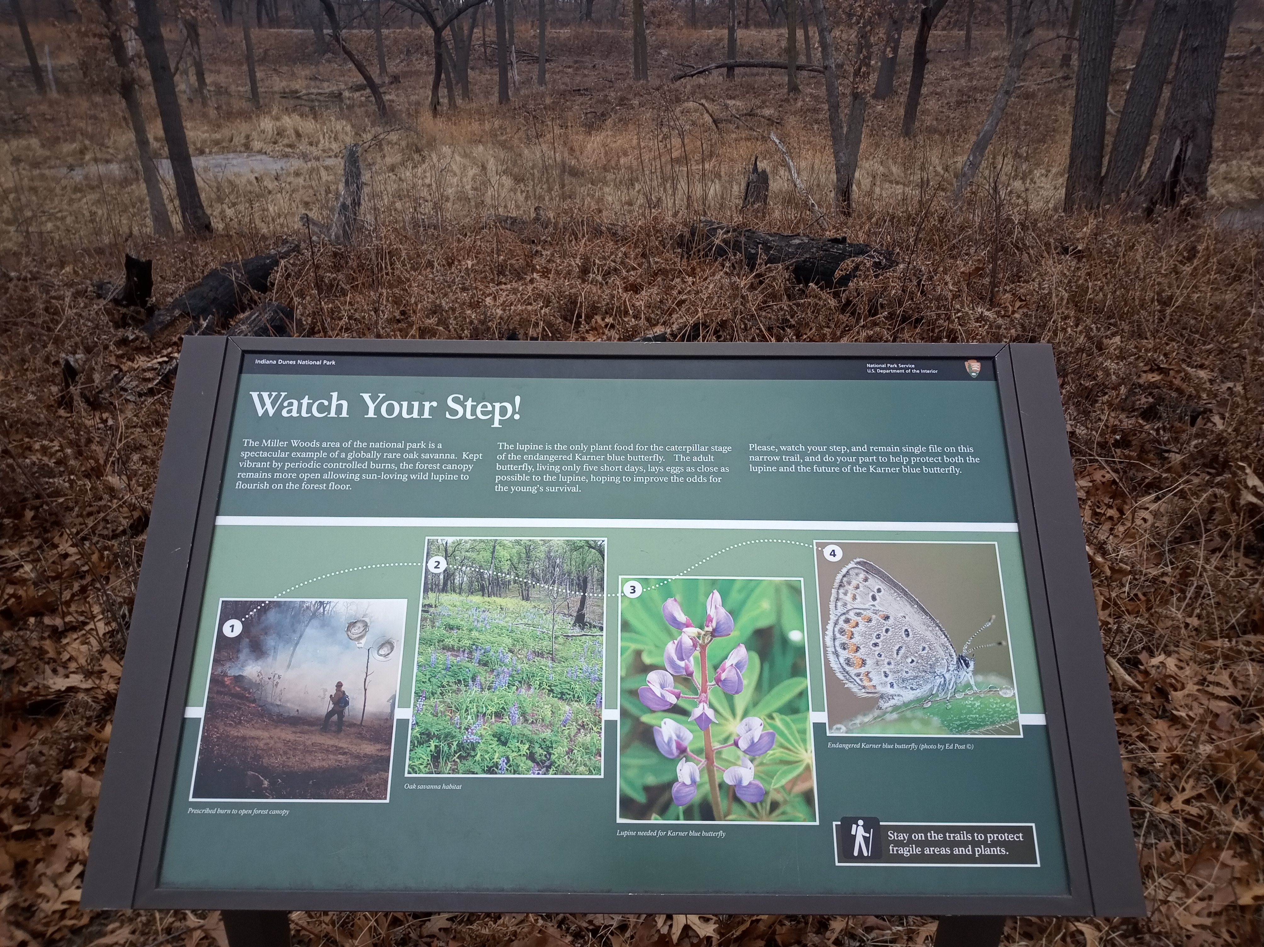 Trailside signage about the endangered Karner Blue butterfly in Miller Woods in the Indiana Dunes National Park, several years after the butterfly's extirpation there.